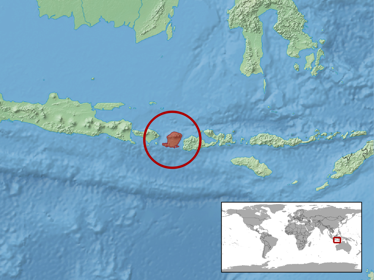 geographic distribution of Cyrtodactylus gordongekkoi (Native: Indonesia (Lesser Sunda Is.))